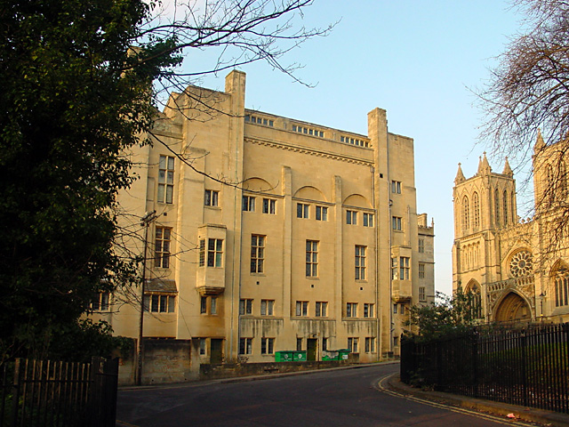 Back of Bristol Central Library. This is the back view of the central library which is a listed building. It was built in 1906, so celebrating its centenary in June this year. It cost £30,000 and was designed by Charles Holden. Bristol's first library, was built in 1613 and was the second public library in the country. In the background is the West Towers of Bristol Cathedral 134836.